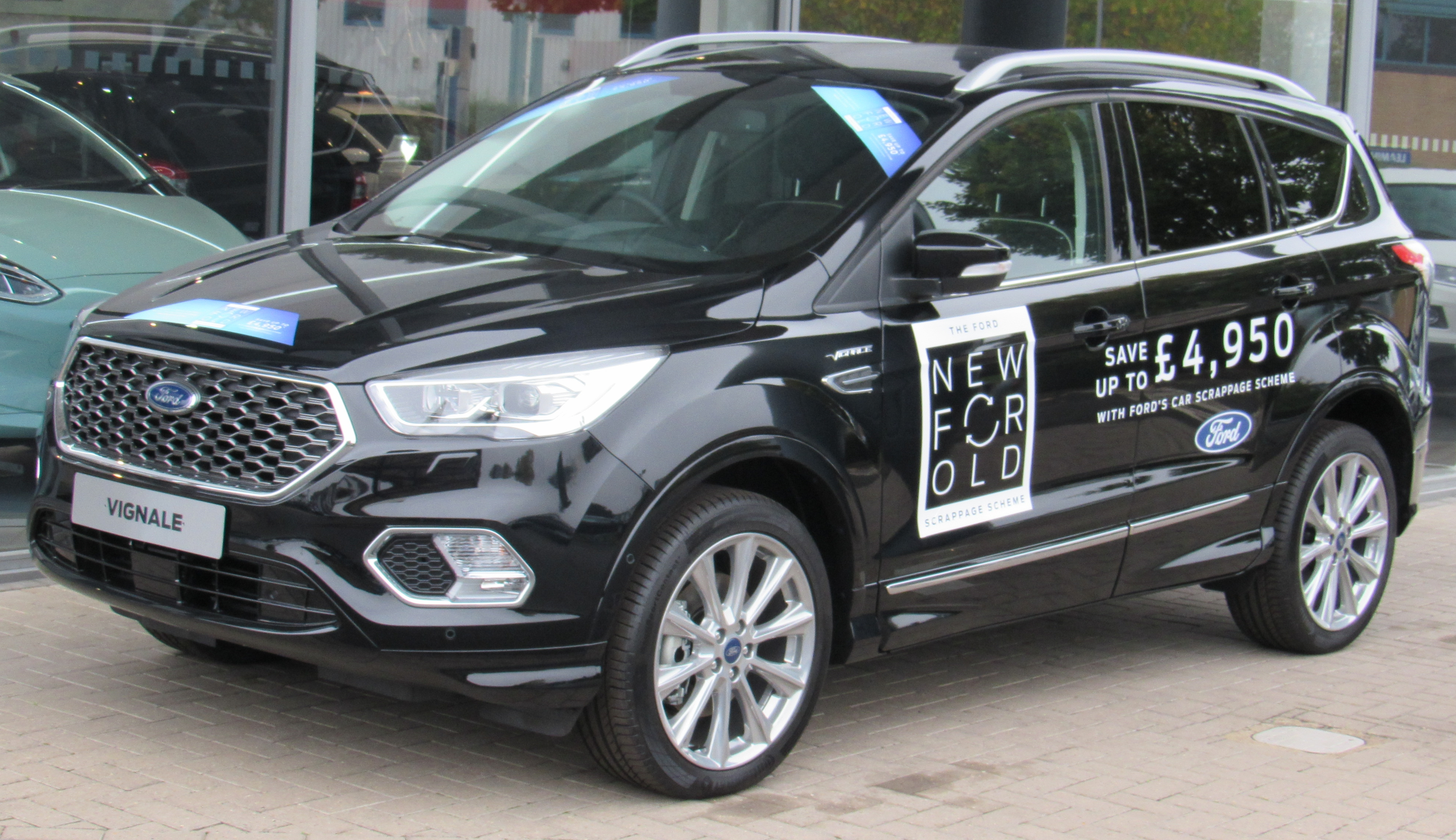 2017 Ford Kuga Vignale Taken at Allen Ford Warwick, Leamington Spa